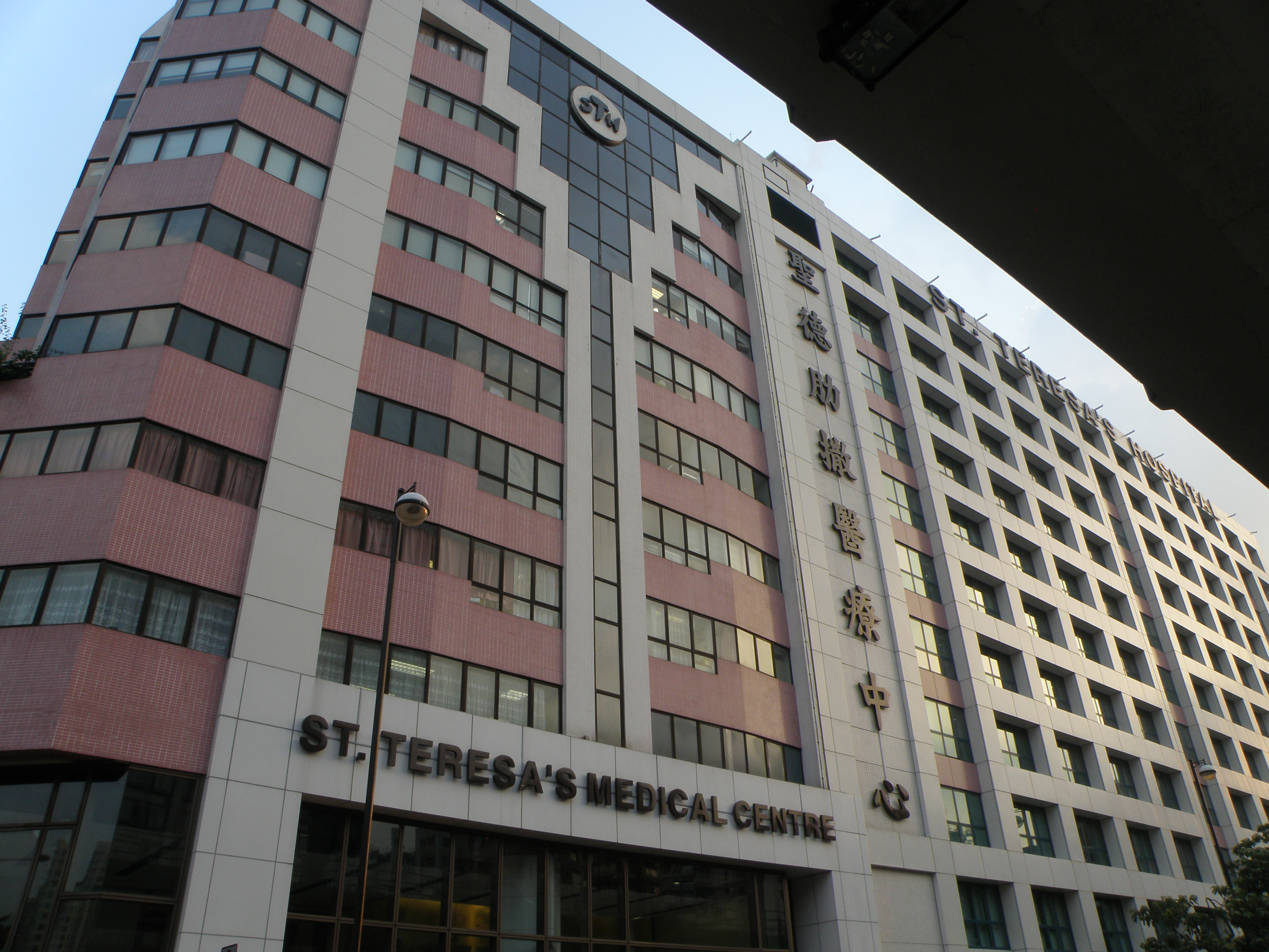 St. Teresa's Medical Centre in Kowloon City, Hong Kong.